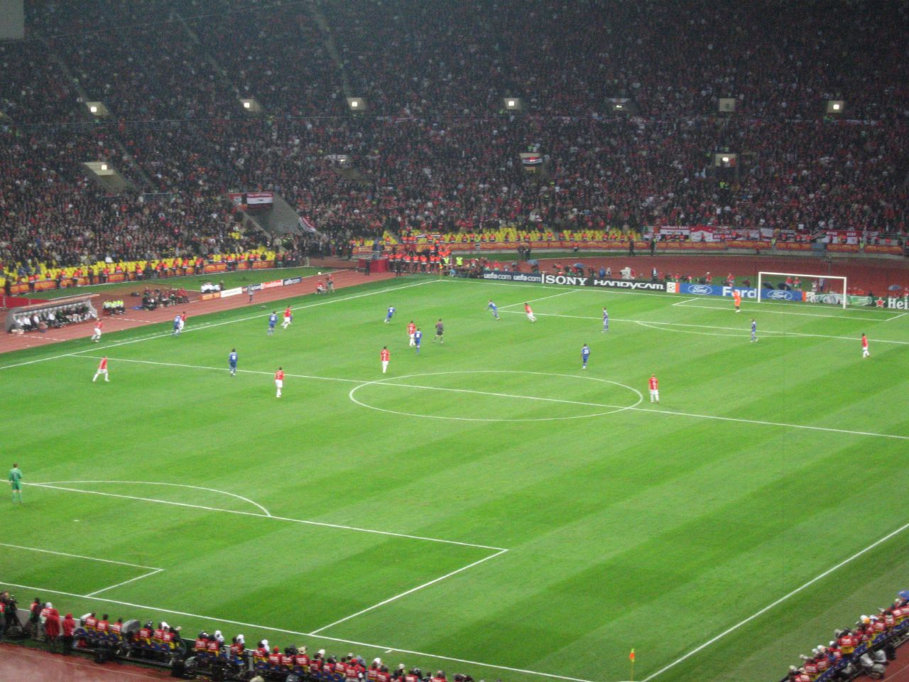 Manchester United go on the attack in the 2008 UEFA Champions League Final against Chelsea at the Luzhniki Stadium, Moscow, on 21 May 2008